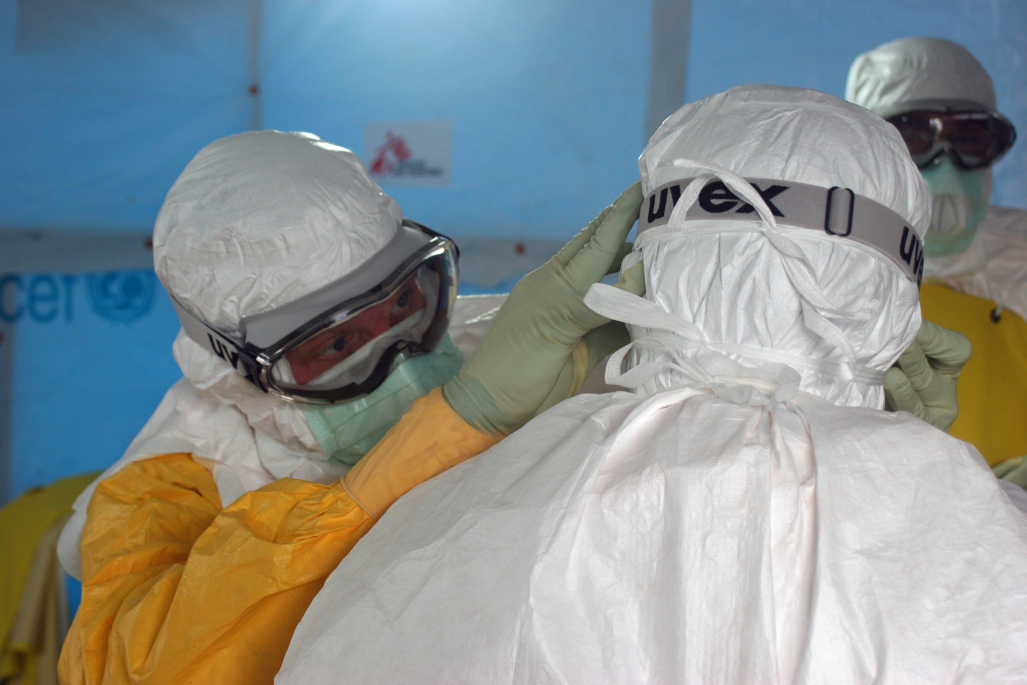 Dr. Joel Montgomery, Team Lead for CDC’s Ebola Response Team in Liberia, adjusts a colleague’s PPE before entering the Ebola treatment unit (ETU), ELWA 3, operated by Médecins Sans Frontières/Doctors Without Borders. Photographer: Athalia Christie For more information on Ebola and what CDC is doing, please visit